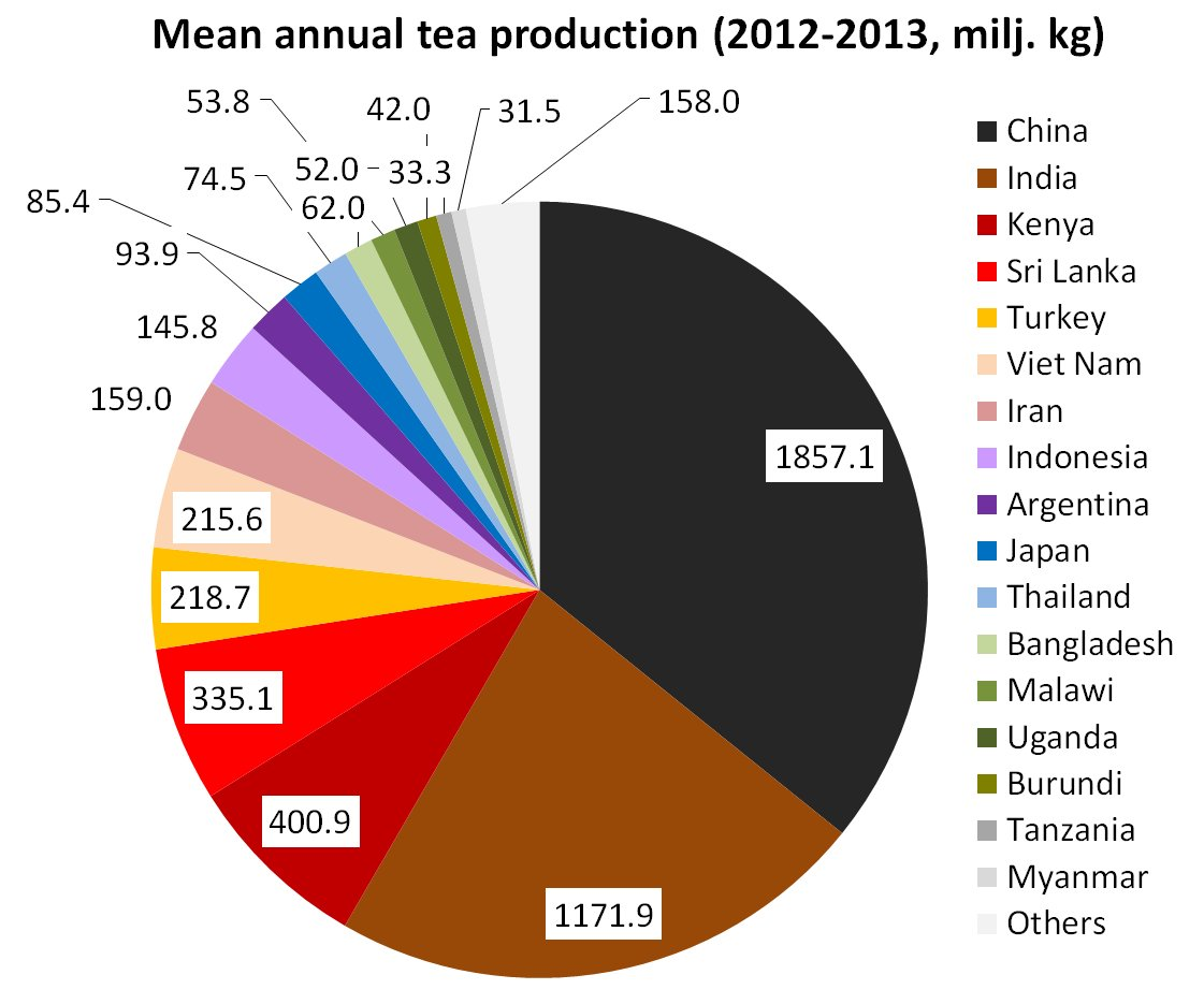 Map of major tea producing countries in the world 2012-2013. This pie chart shows separately the 17 countries which based on FAO statistics produced at least 30 million kilograms (= 30 kilotonnes) of tea annually (mean production, years 2012 and 2013). Statistical data from: filters used when downloading data: Countries= Select all, Items= Tea, Elements= Production Quantity and Years= 2012-2013.